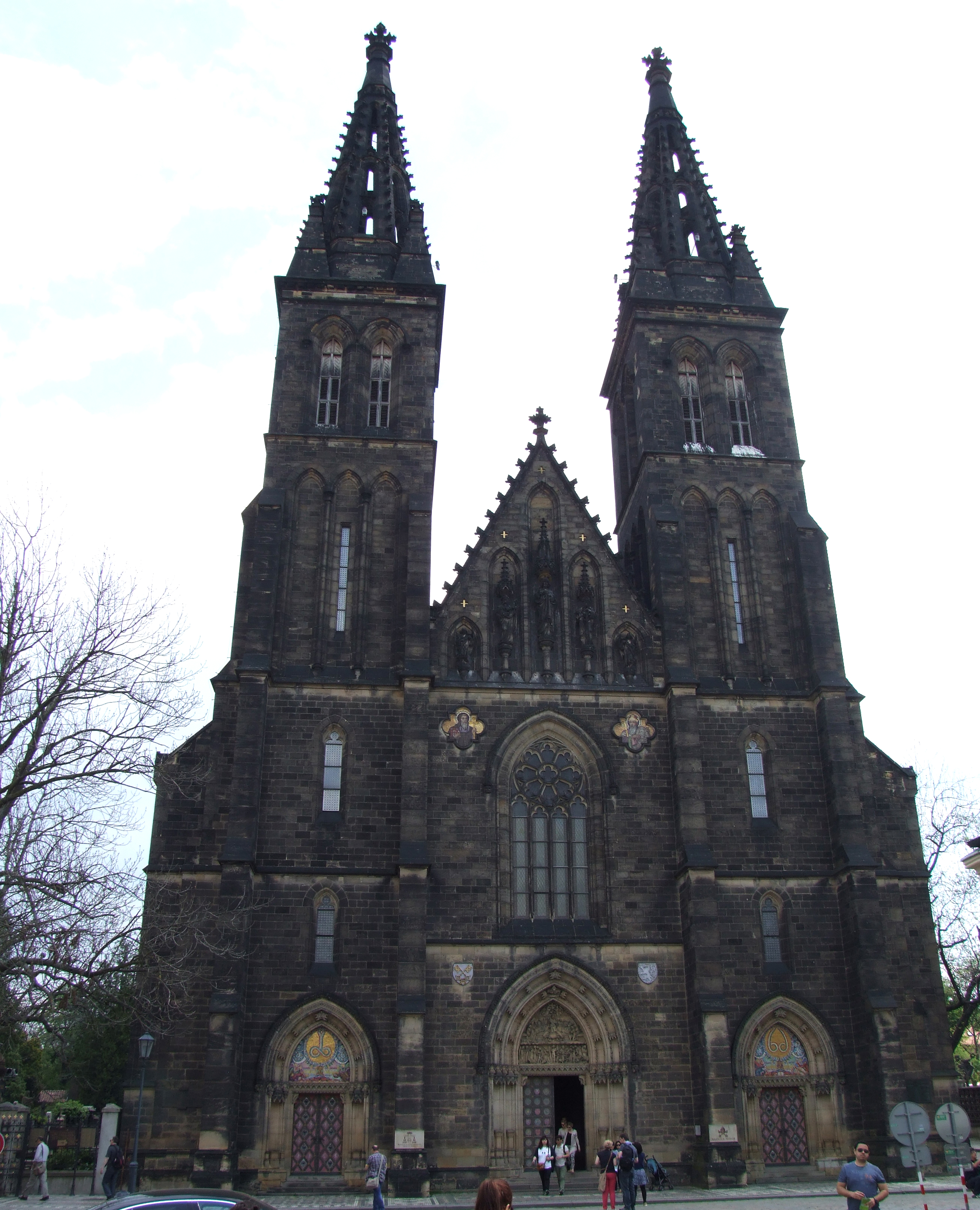 Saint Peter and Saint Paul's Basilica, Vyšehrad